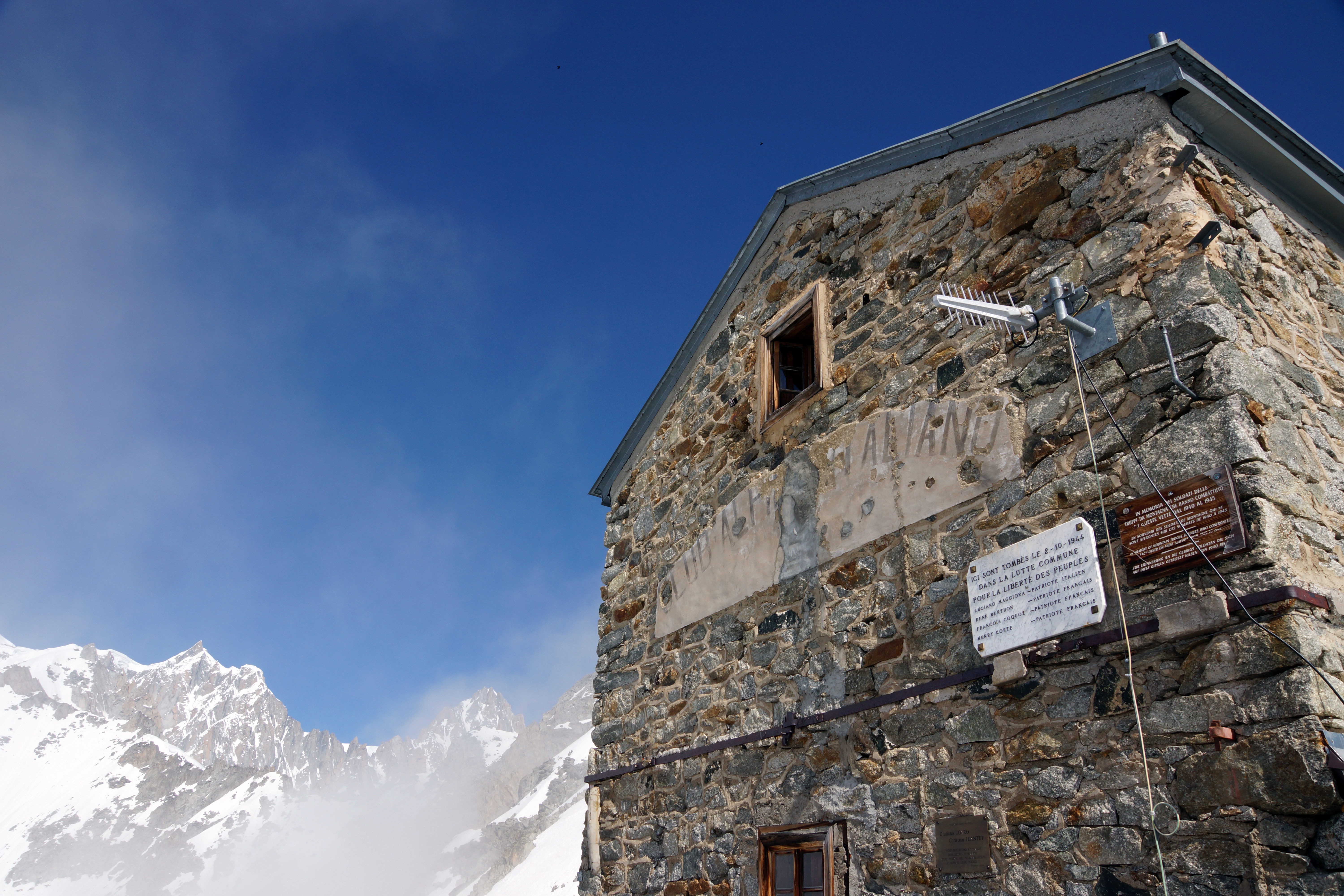 Refuge Torino on Pointe Helbronner in the Graian Alps, near Courmayeur in the Aosta Valley, Italy.